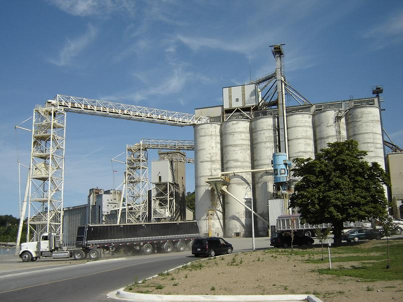 Port of Goderich, Harbour, photo by Jay Smith